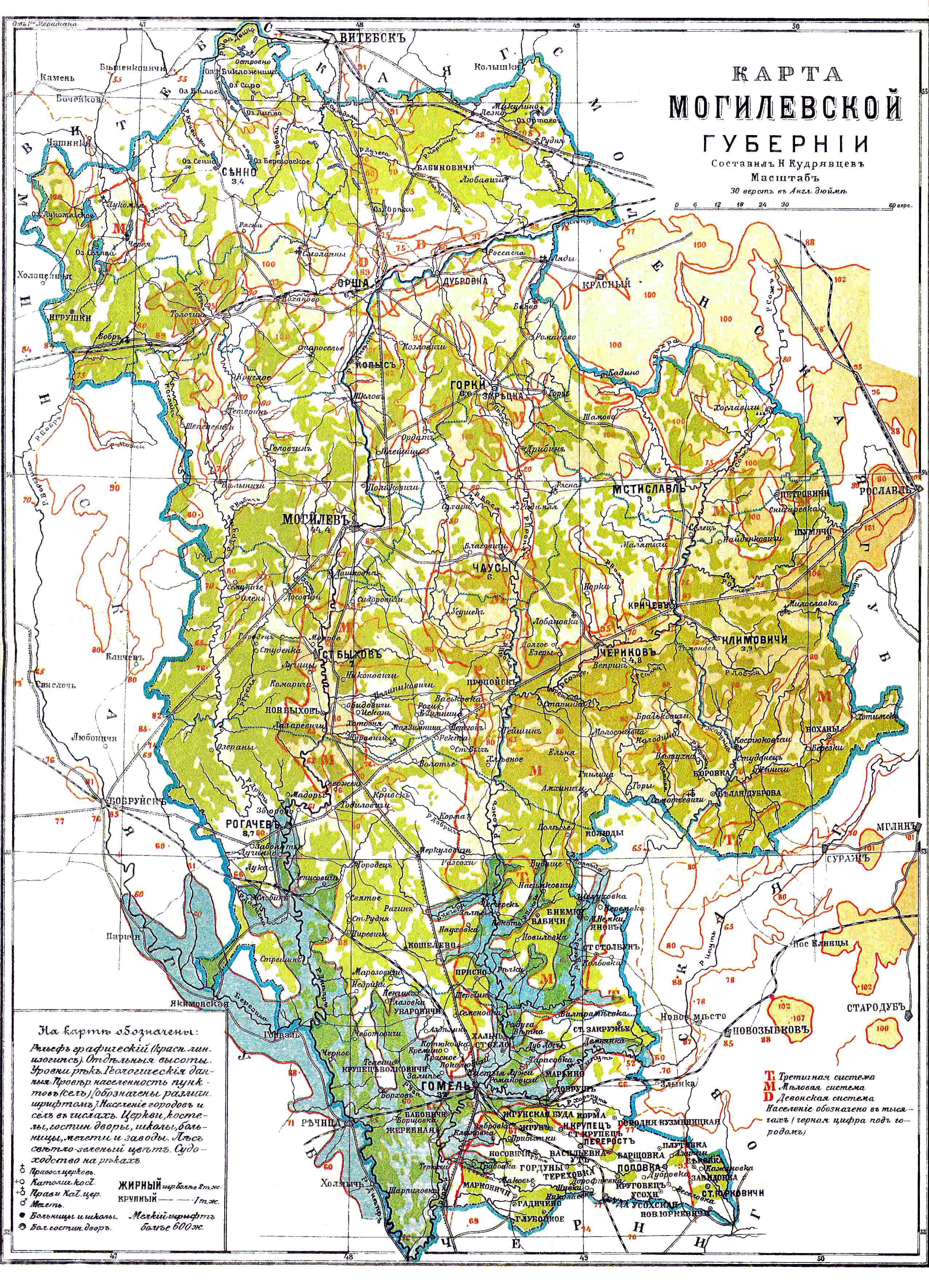 Illustration from Brockhaus and Efron Encyclopedic Dictionary (1890—1907)